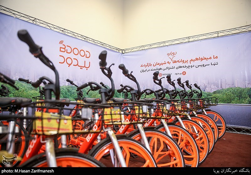 a set of BDOOD parks on show